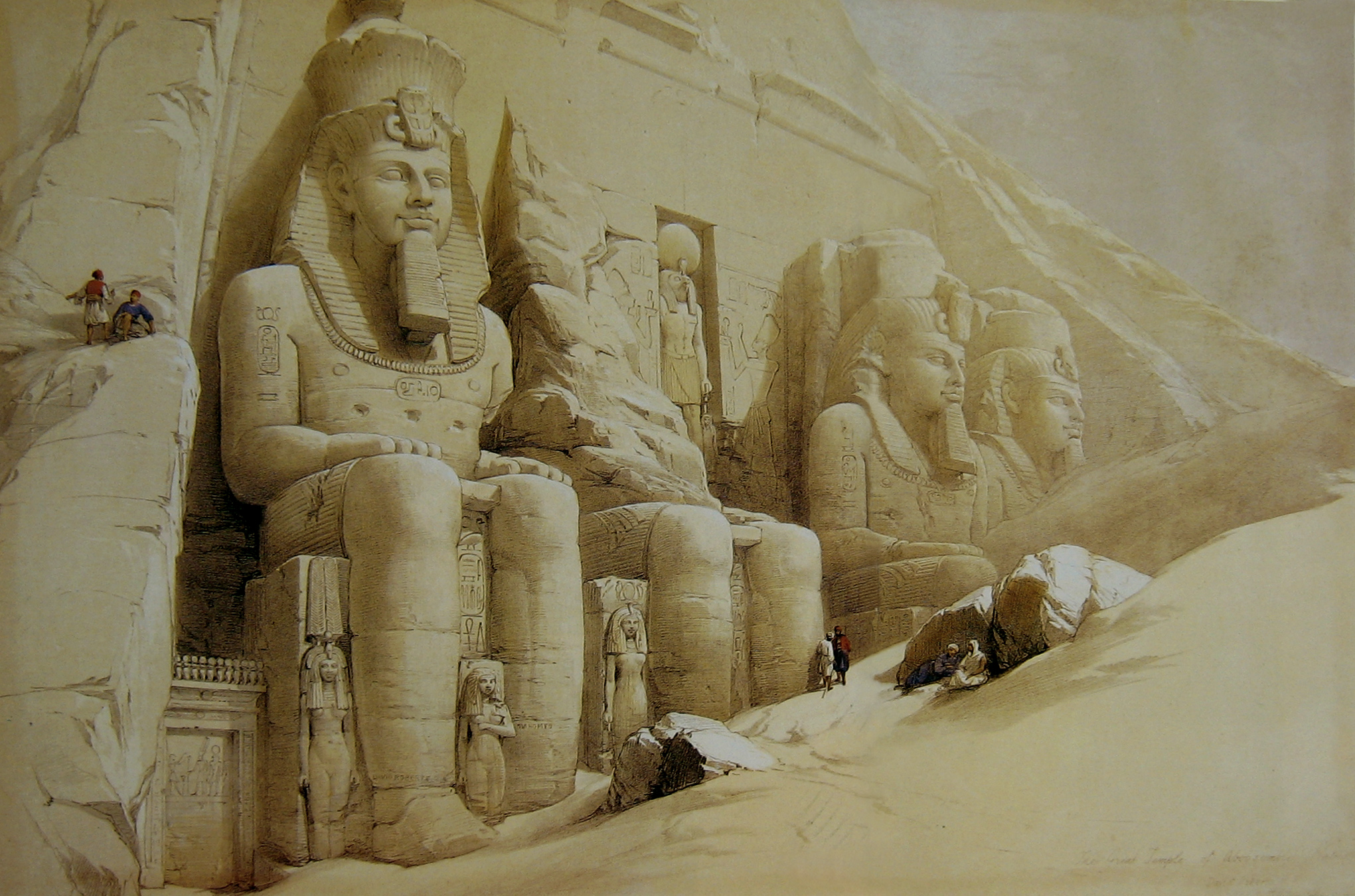 Colossal figures in front of the Great Temple of Aboo-Simbel